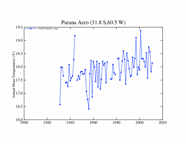 Termal graph of 1931 2012 air average temperaturas at city of Paraná, Entre Ríos province, Argentina